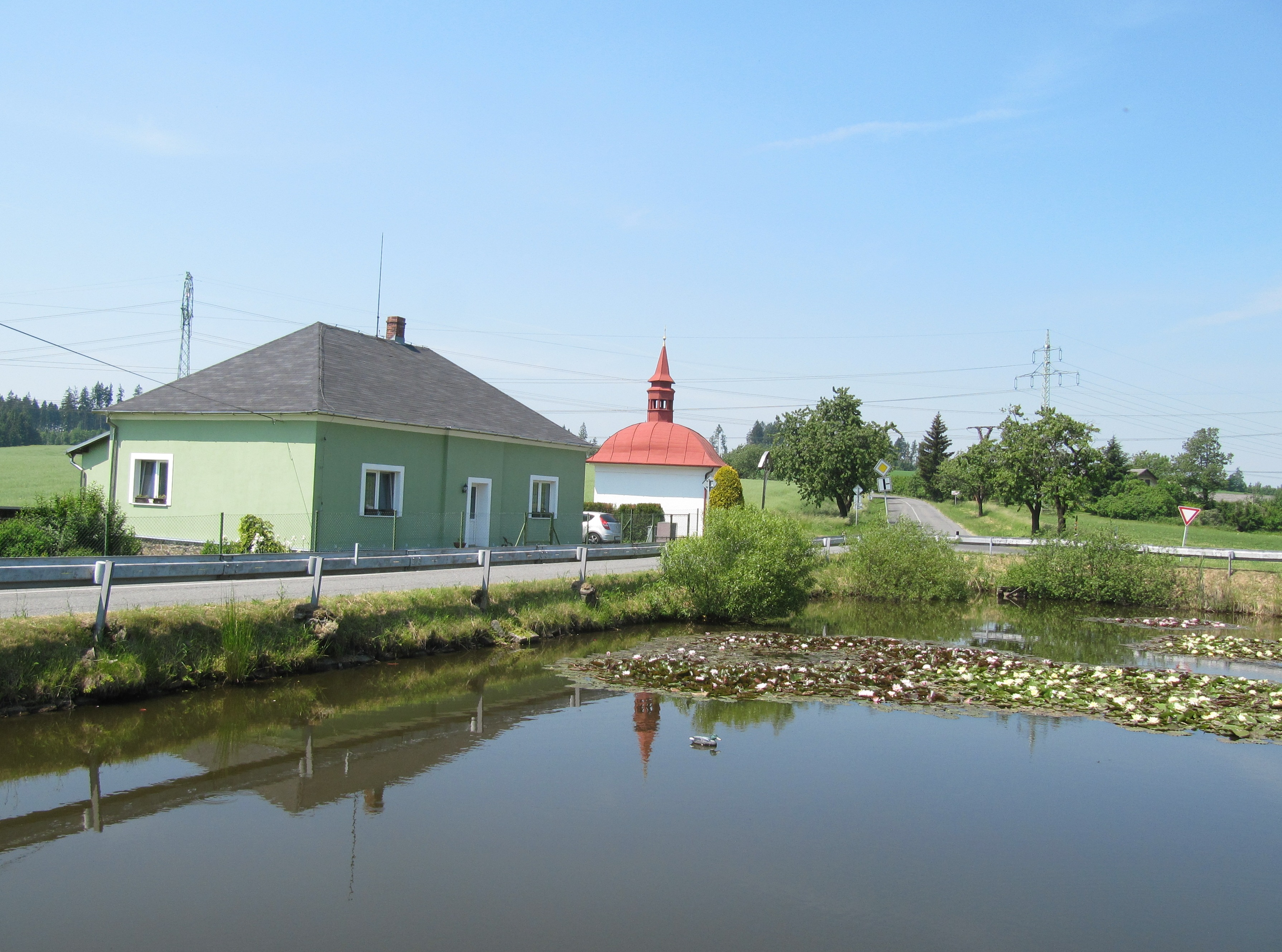 Větřkovice, Opava District, Czech Republic, part Nové Vrbno; Horní Životice–Kletné 400 kV power line (V459, left pylon) and a 110 kV power line (right pylon) in the background.